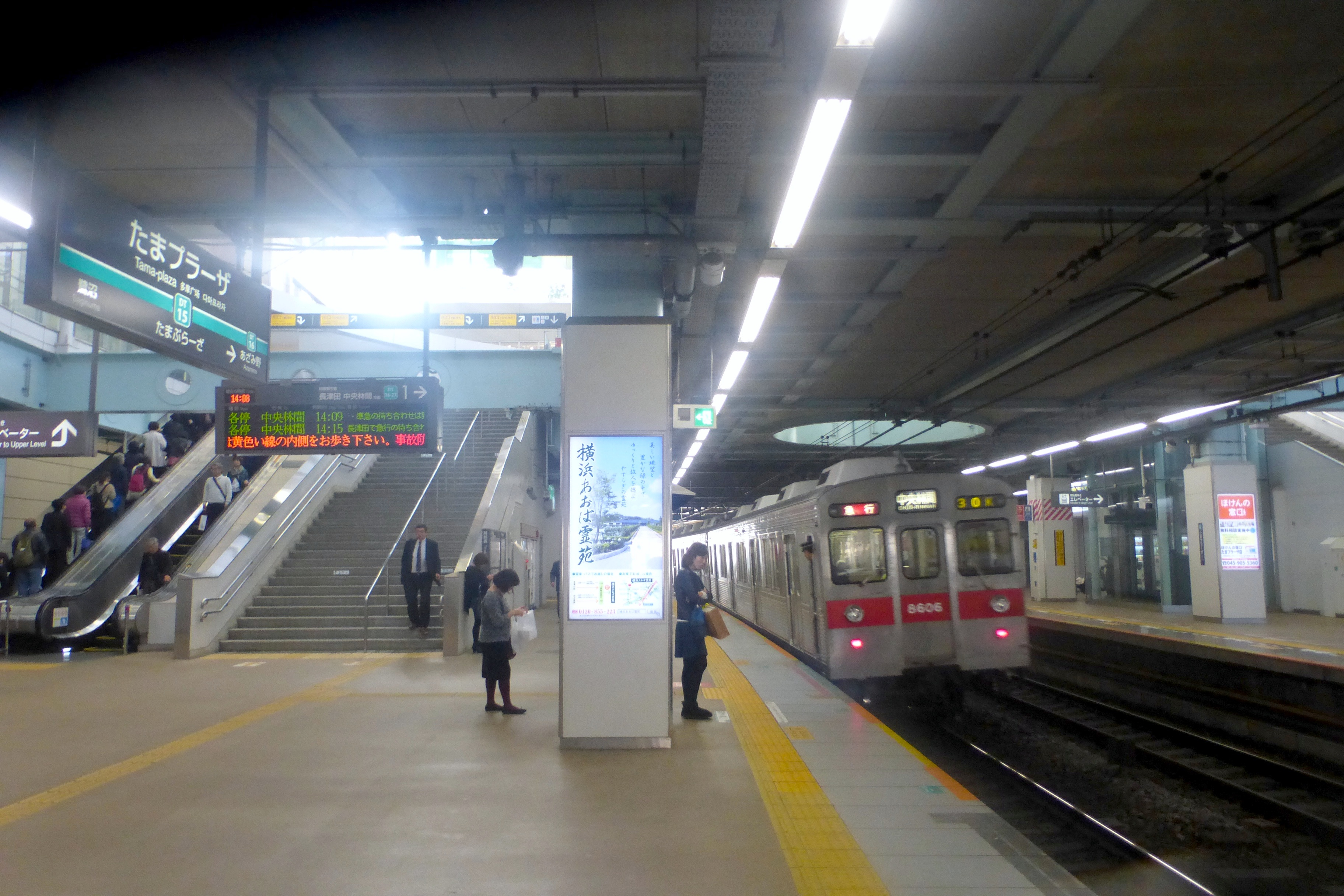 たまプラーザ駅のホームと電車 (Tama-Plaza Station platform and train)